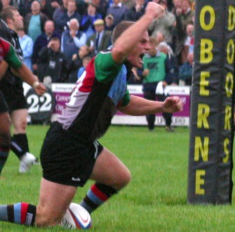 The Winning Try